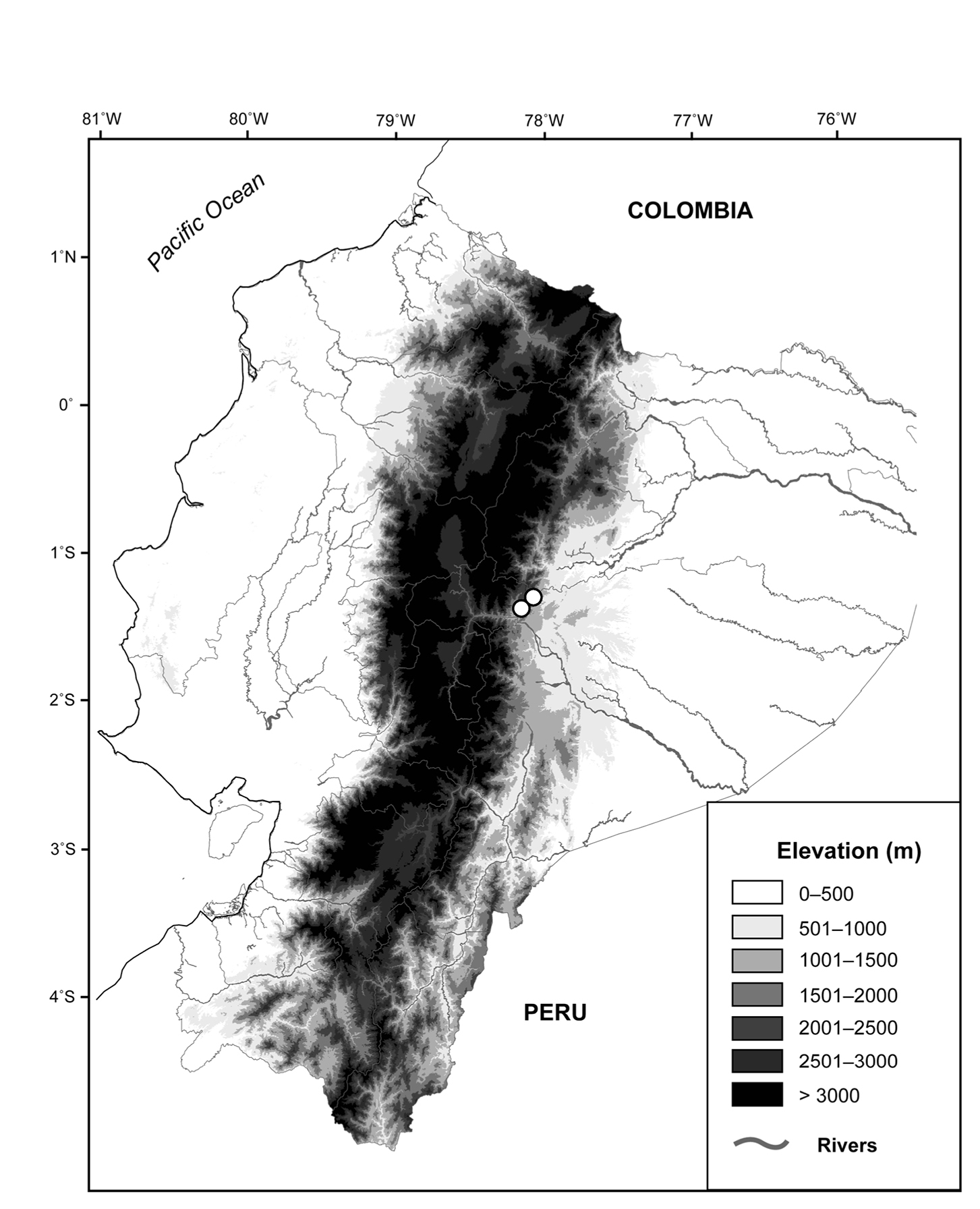 Distribution of Osornophryne simpsoni (white circles) in Ecuador.